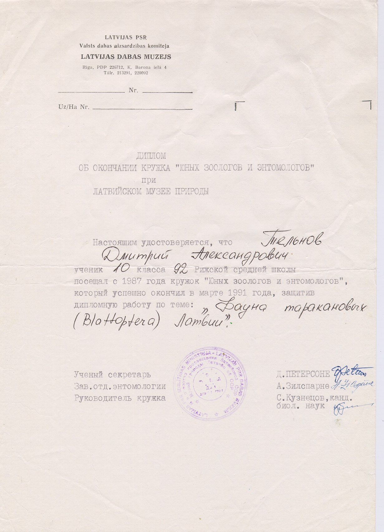 This diploma certified that Dmitry Telnov participated museum's courses for young zoologists and entomologists in 1987-1991